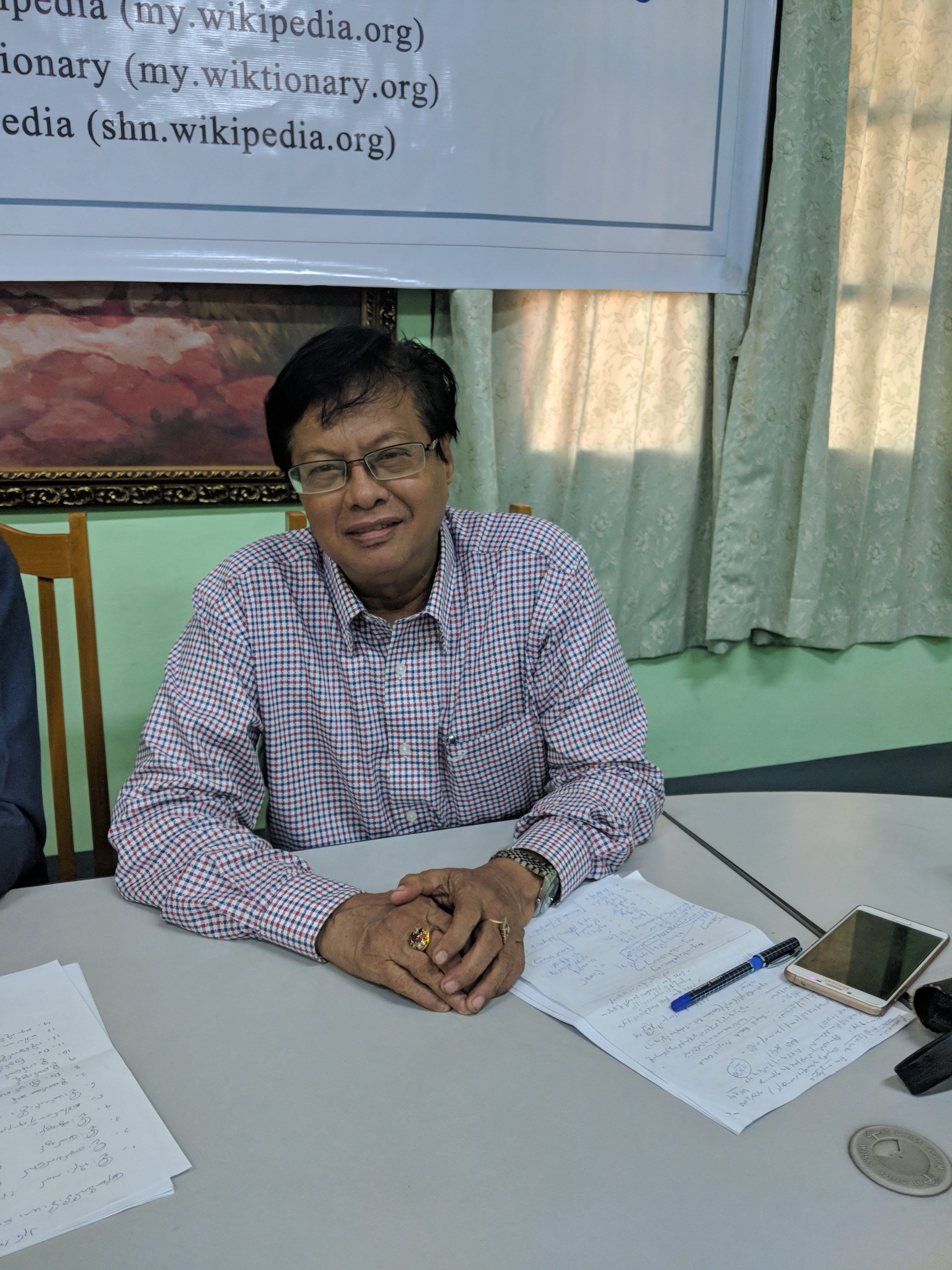 Author Hein Latt